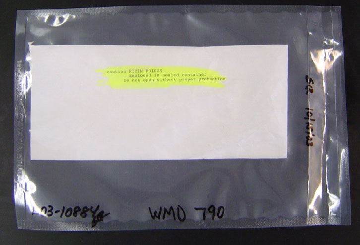 An FBI photograph of the warning on the envelope included with a ricin contaminated letter that was discovered on October 15, 2003 in Greenville, South Carolina. The letter was written to the U.S. Department of Transportation but contained no delivery address and no postmark.